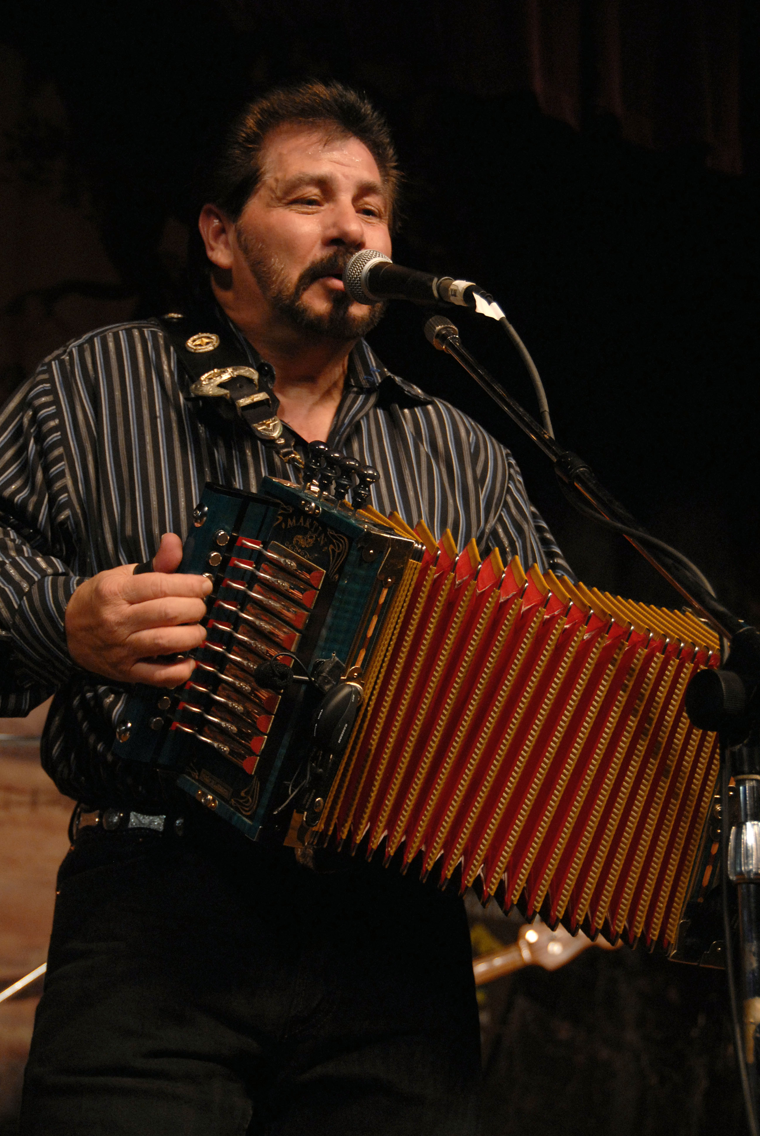 Jo-El Sonnier at the Liberty Theater in Eunice, LA, in 2006